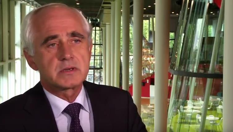 Utrecht professor Bert van der Zwaan, Oct. 2012